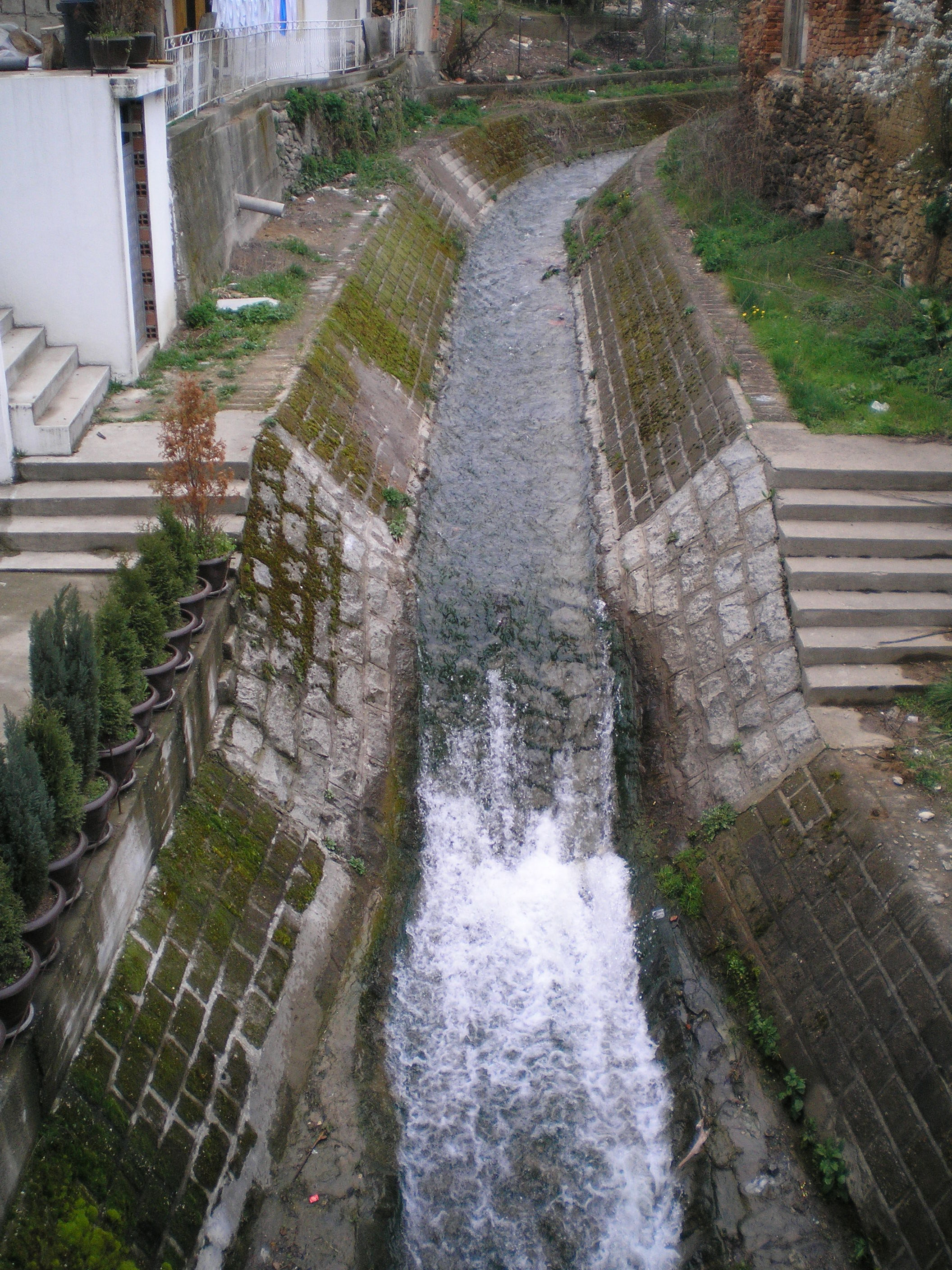 Gradska (Vranjska) River in Vranje